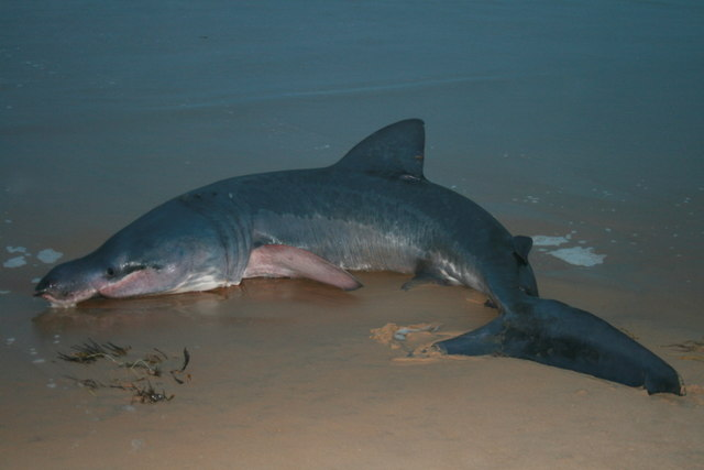 A Basking Shark beaten by the northerly winds Time runs out for this shark on the East Beach at Lossiemouth.